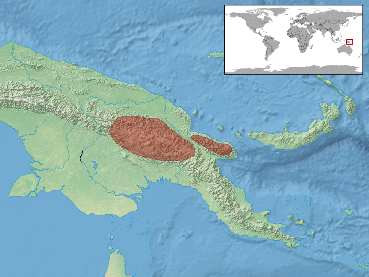 geographic distribution of Prasinohaema flavipes